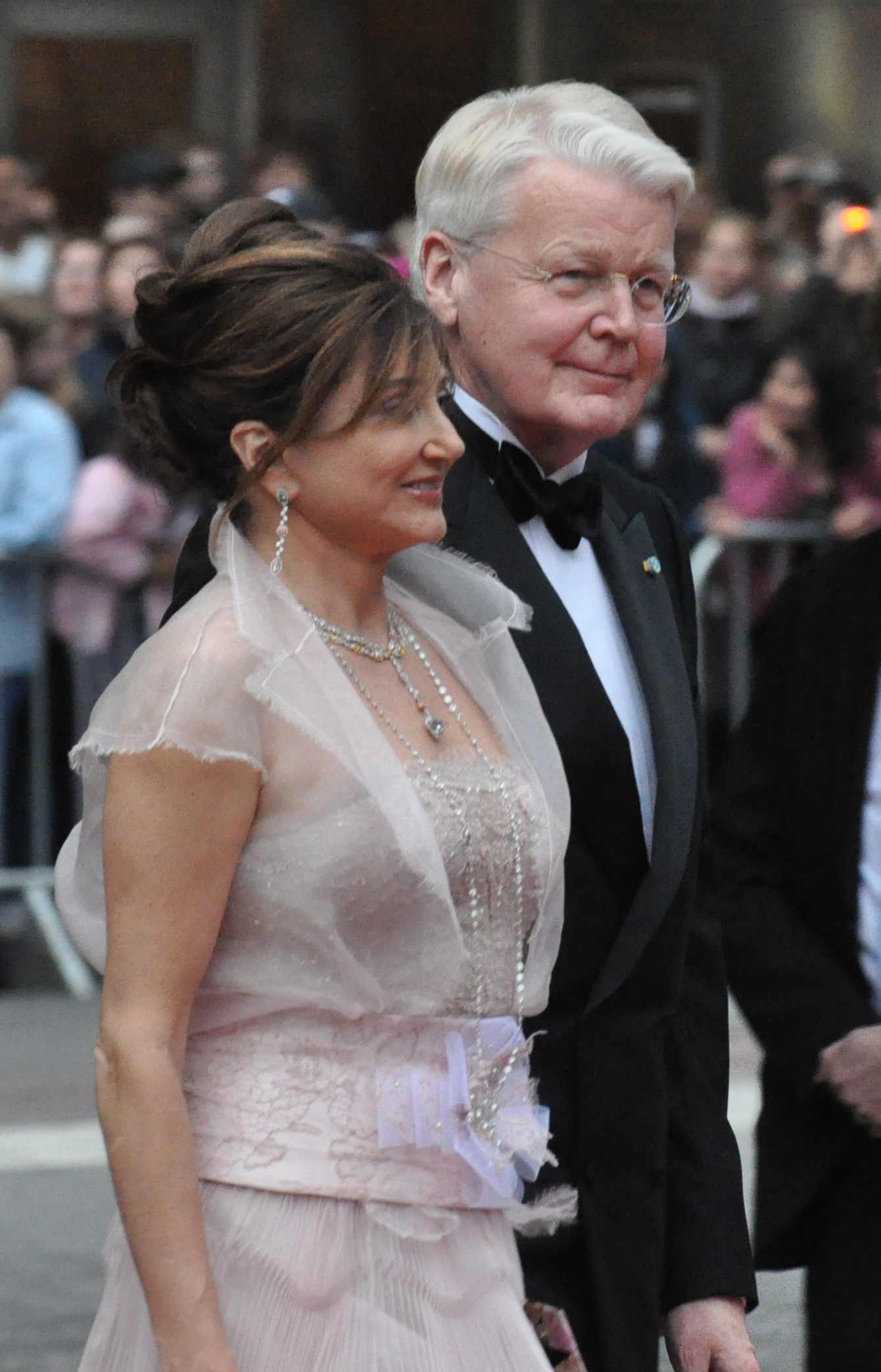 Wedding of Victoria, Crown Princess of Sweden, and Daniel Westling; Arrival of members for the Gouvernment and Swedish and foreign guests of hounour to the Riksdag's Gala Performance at Konserthuset